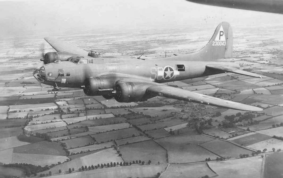 Boeing B-17F-85-BO (S/N 42-30043) of the 384th Bomb Group, 547th Bomb Squadron. (U.S. Air Force photo)